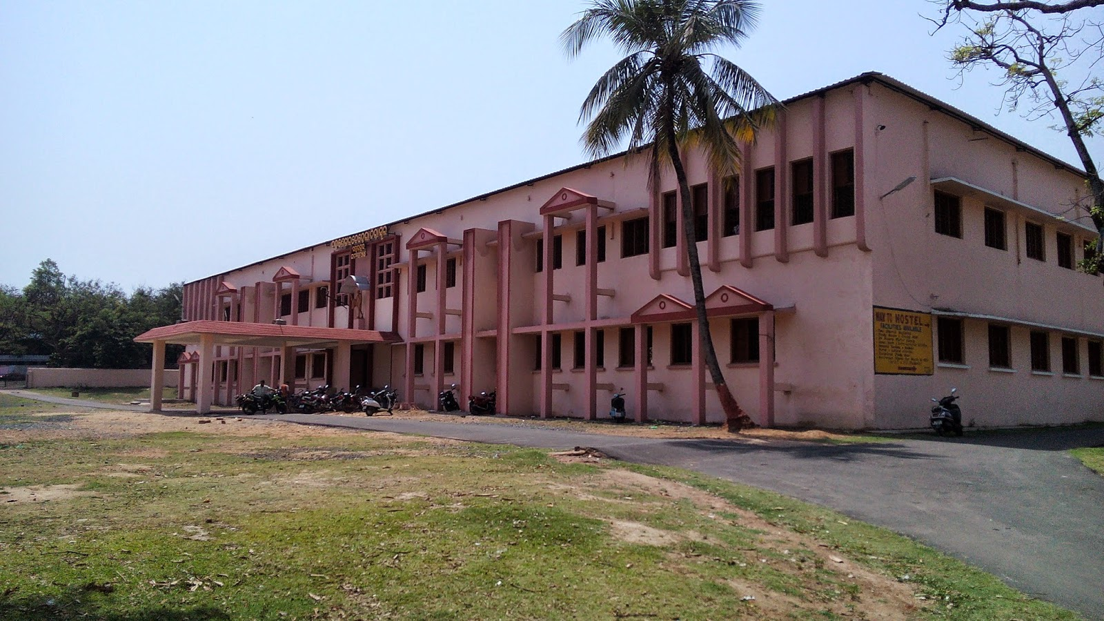 This is picture of Chandra Sekhar Behera Zilla School, Sambalpur